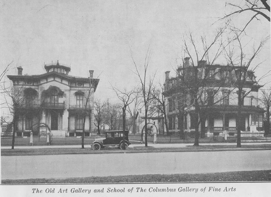 "The house on the left was originally the home of Francis Sessions. The home on the right belonged to William Monypeny. The Columbus Gallery of Fine Arts and the Columbus Art Association were both chartered in 1878. On October 30, 1878 The Columbus Gallery of Fine Arts became the first art museum in Ohio to register its’ charter with the State. The Columbus Art Association established the Columbus Art School, now known as the Columbus College of Art and Design (CCAD), in 1879. Both organizations were located initially in the Sessions Building at 181 North High Street. Classes were held there until 1888. Land for the Columbus Gallery of Fine Arts was willed to the Gallery upon the death of Francis Sessions in 1892. The art collection for the Columbus Gallery of Fine Arts was displayed in the Sessions house at 478 East Broad Street. Sessions also provided money to fund the Columbus Art School which moved into the adjacent Monypeny house at 492 East Broad Street. The new Columbus Gallery of Fine Arts opened January 22, 1931 on the sites of these two houses. The building was completed in 1932. The name was later changed to the Columbus Museum of Art on the museums’ centennial in 1978. It was added to the National Register of Historic Places on March 19, 1992, under its original name."